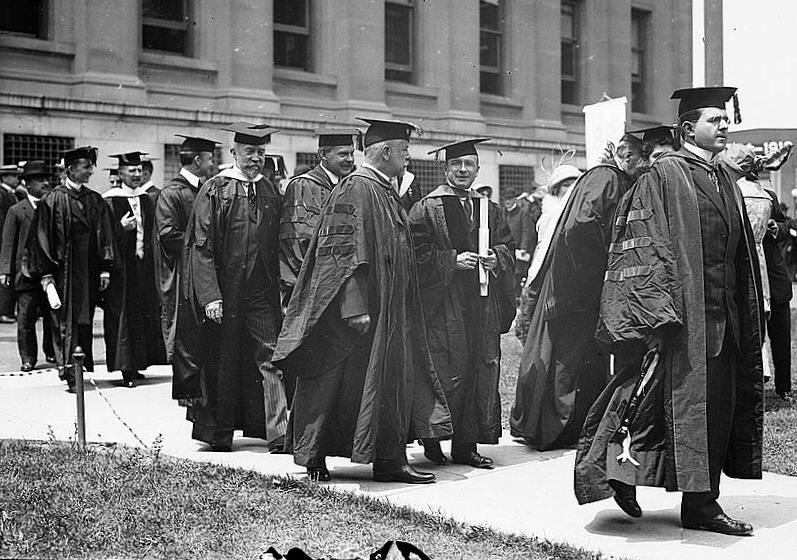 Photo shows alumni at the June 4, 1913 Columbia University commencement including Dr. Alexis Carrel in center with his face towards the camera. Carrel received an honorary degree at the commencement. (Source: Flickr Commons project, 2009 and New York Times, June 4, 1913)